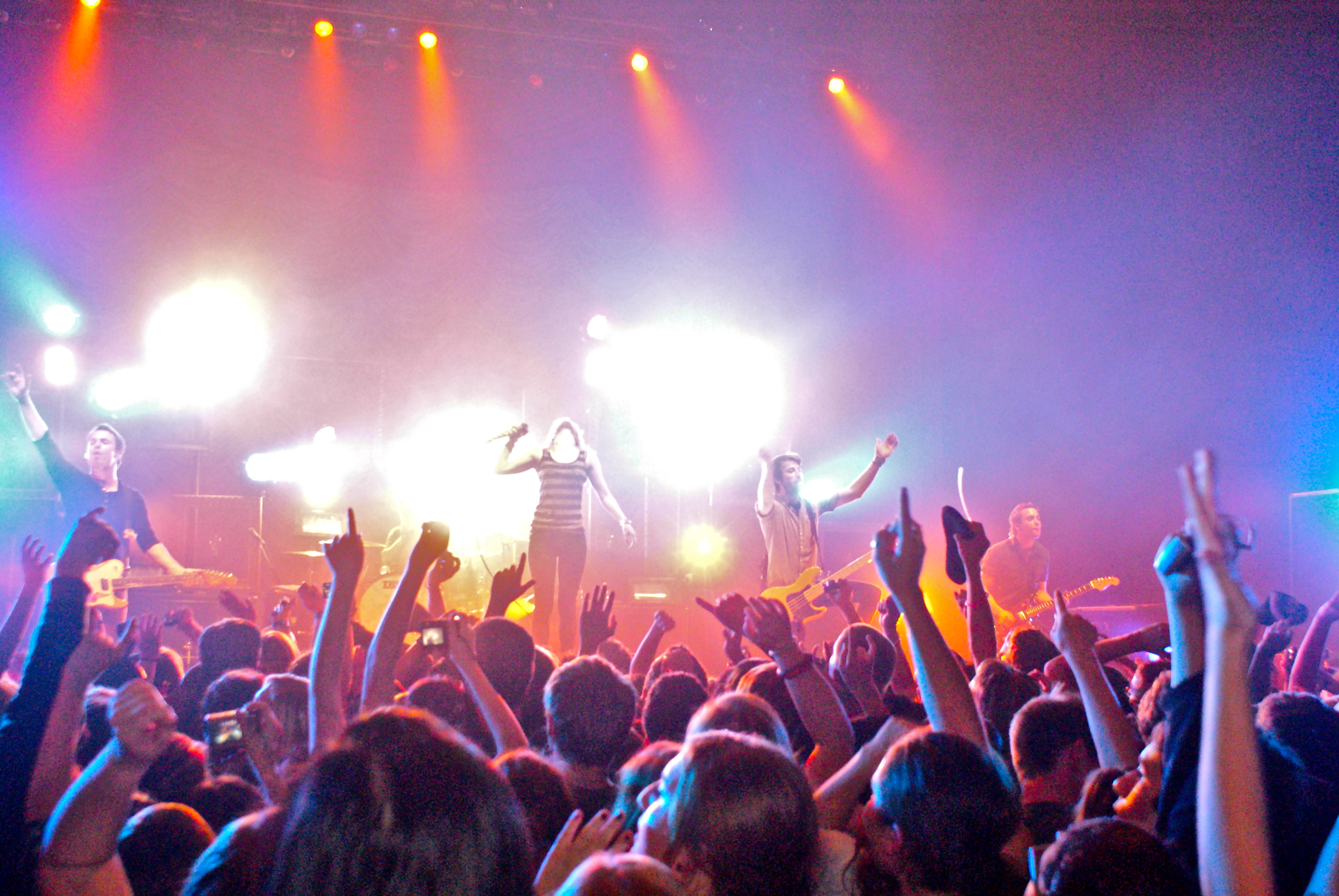 Roy Wilkins Auditorium, Saint Paul, MN - 06 November 2009